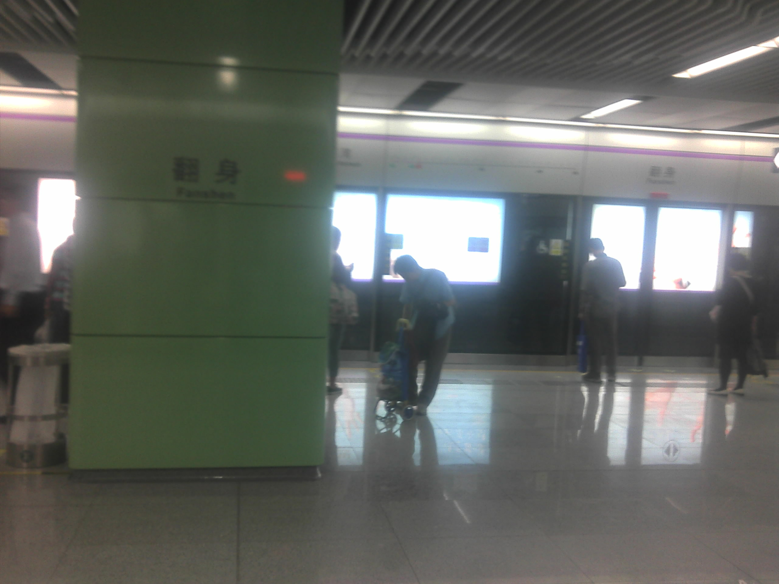 This photo was taken as Nov 19, 2011.